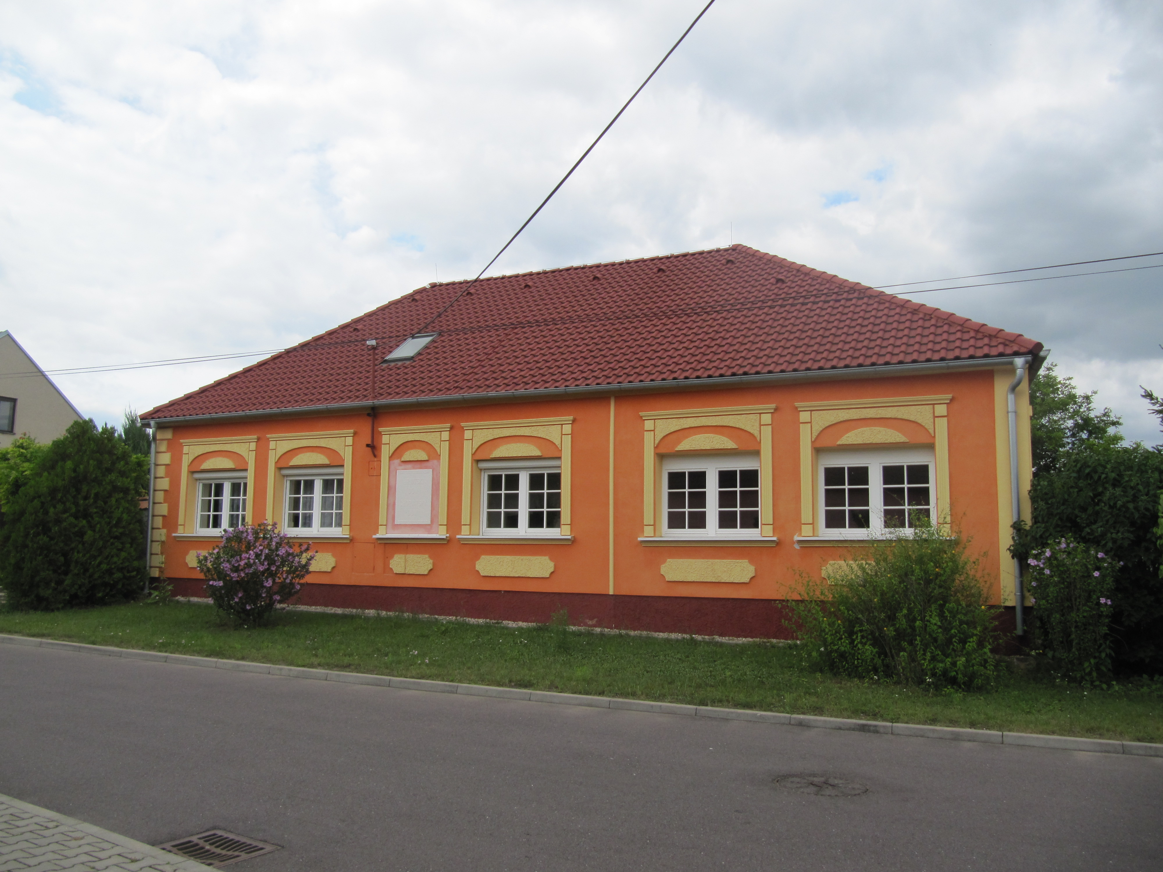 Jevišovka in Břeclav District, Czech Republic. Croatian house.